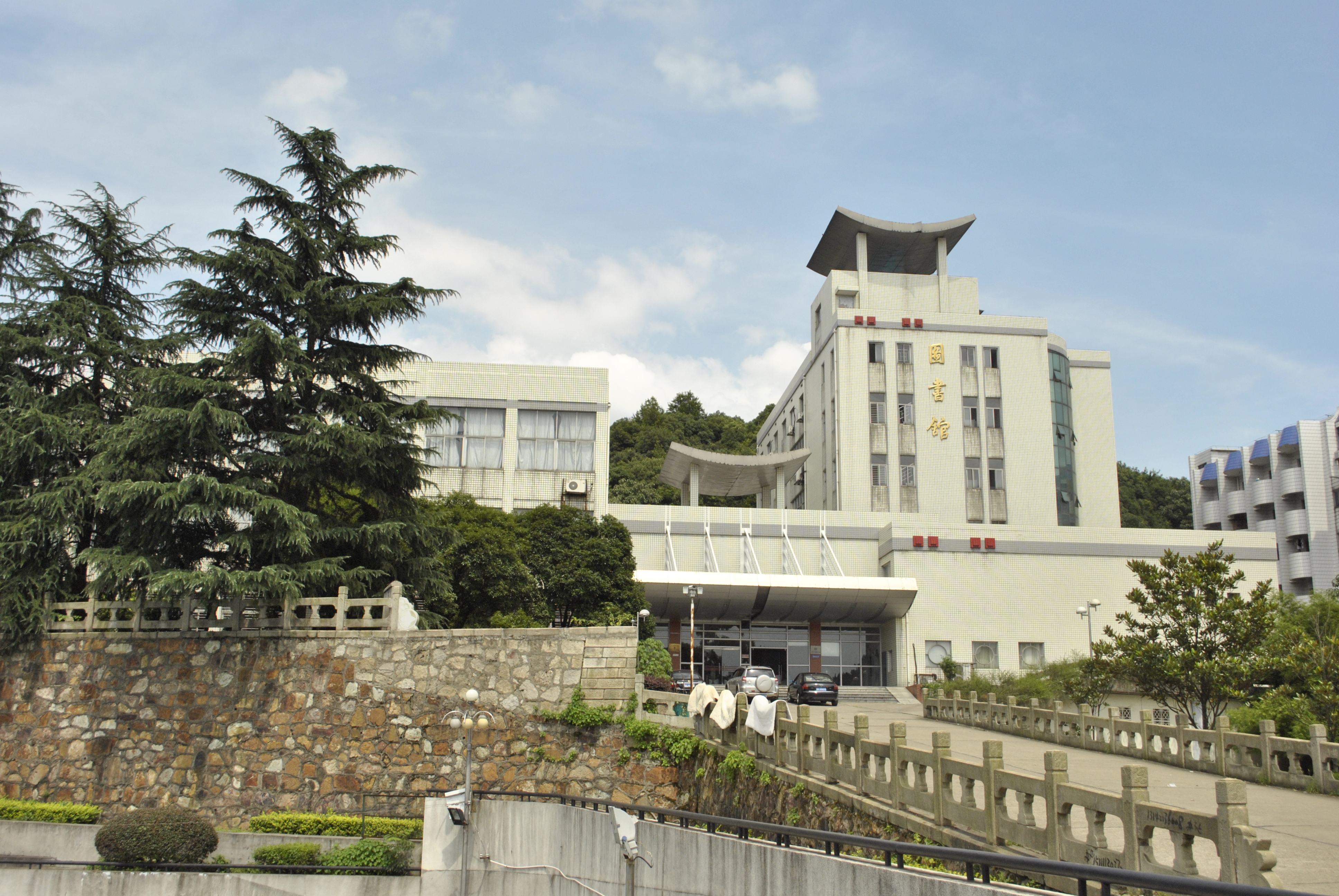 The library of Hunan university northern area